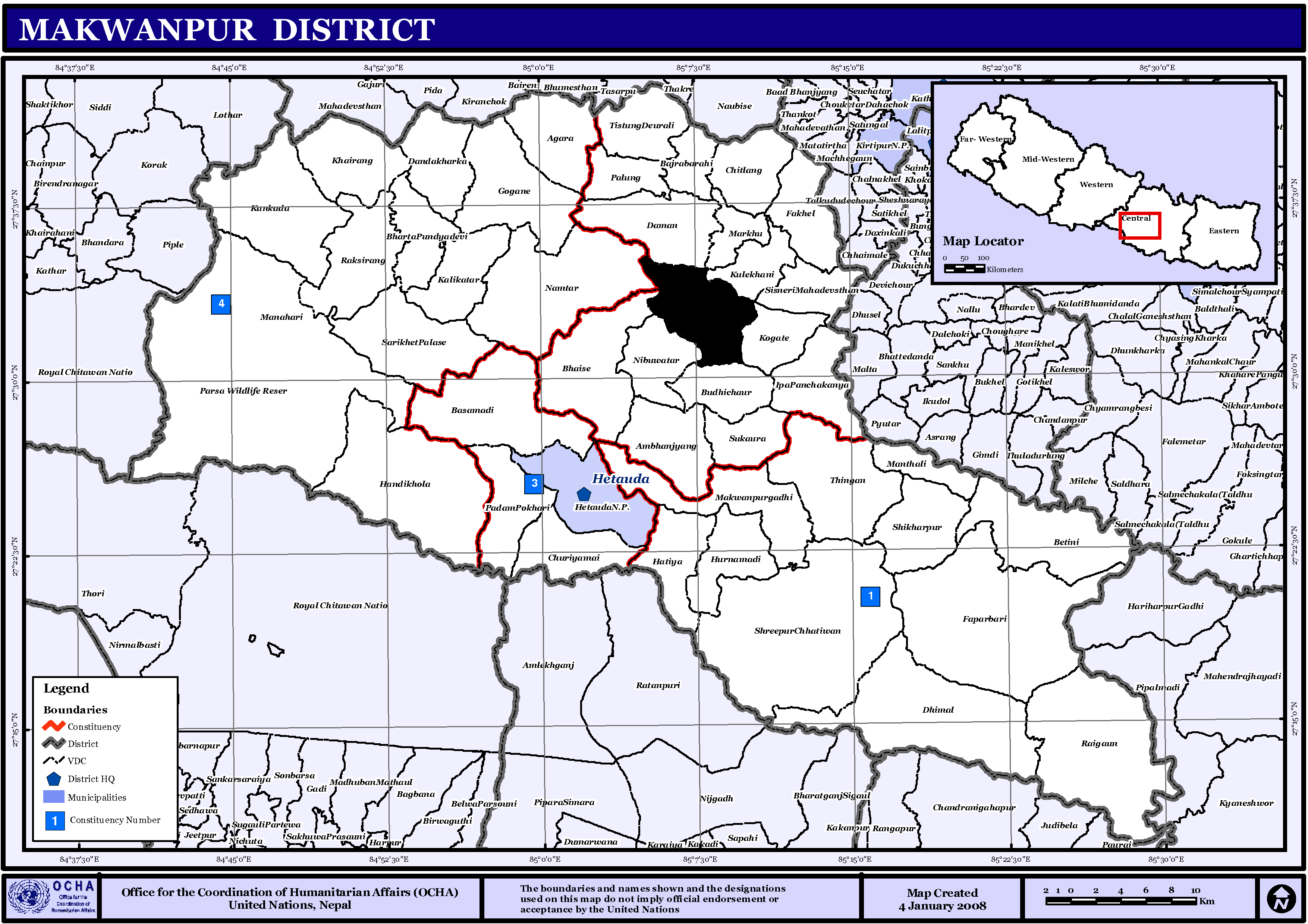 Map displaying Village Development Committees in Makwanpur District, Nepal